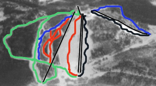 Bygdsiljumbacken in Bygdsiljum